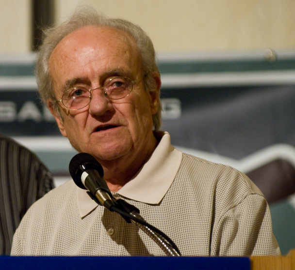 "Baseball executive and SABR member Roland Hemond (foreground) announces the presentation of the 2009 Roland Hemond award to Dallas Green" Photo courtesy of The SABR Office, via Flickr. This file has been extracted from another file: Roland Hemond and Dallas Green.jpg